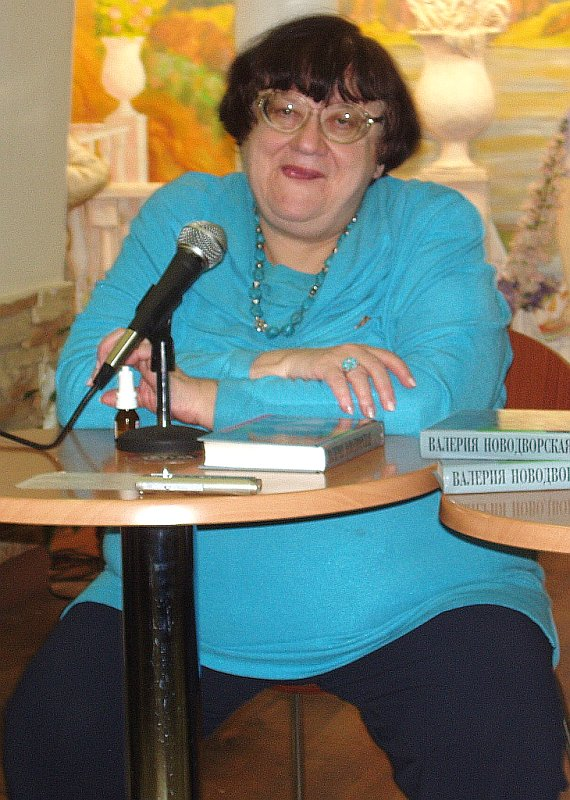 Valeriya Novodvorskaya - politician of Russia